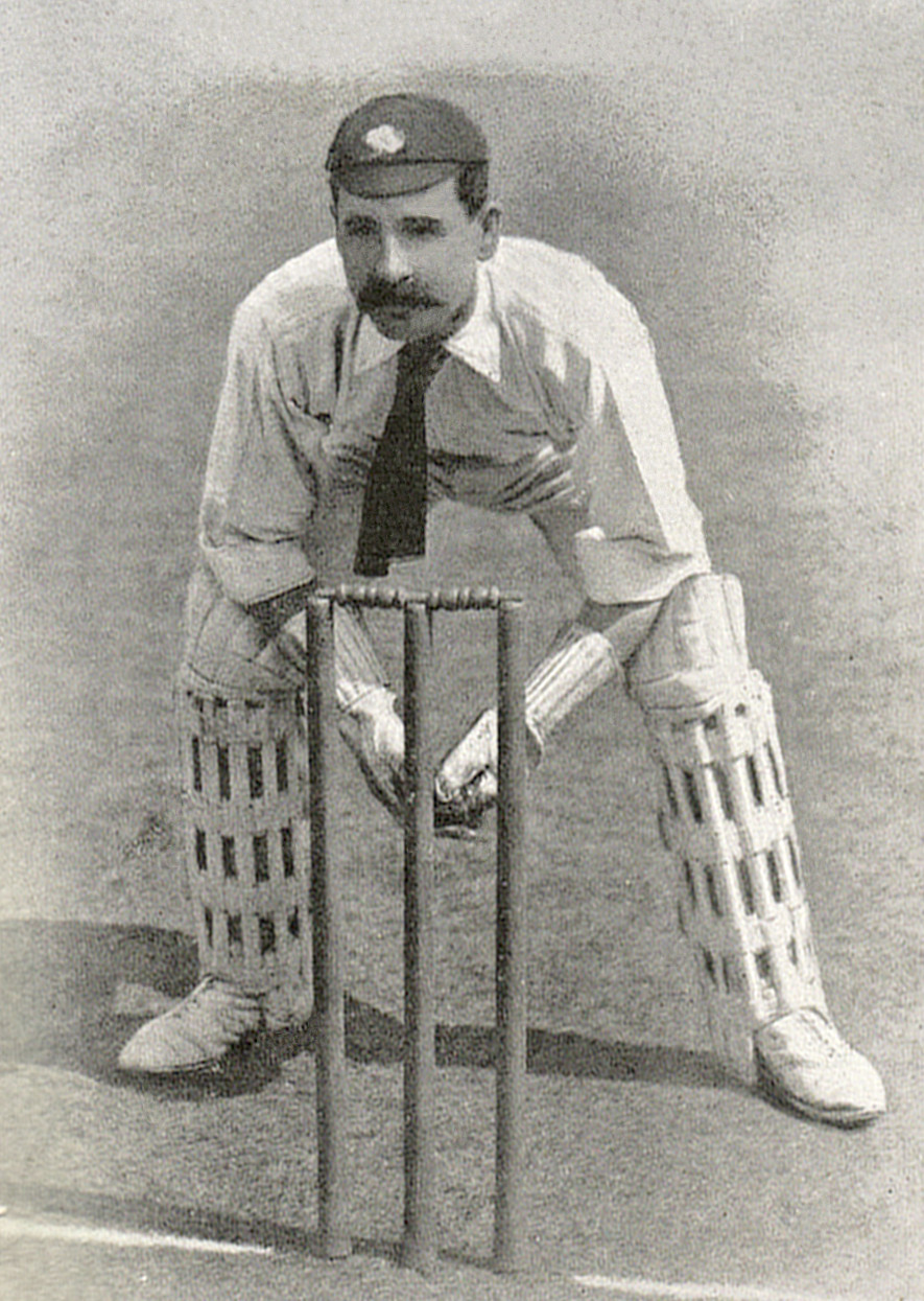 Picture of Yorkshire cricketer David Hunter